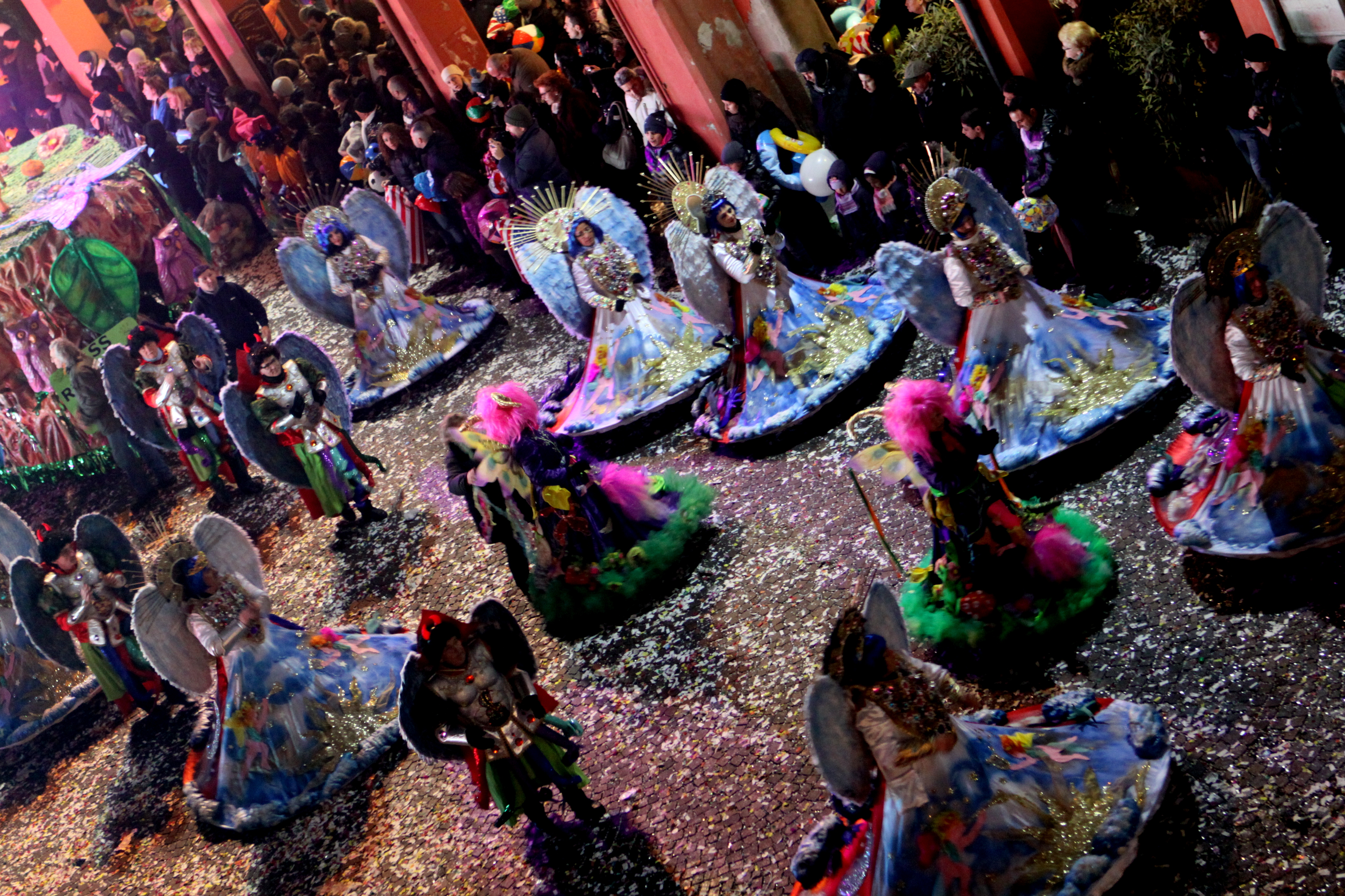 Masked group creates coreography during Cento's carnival.